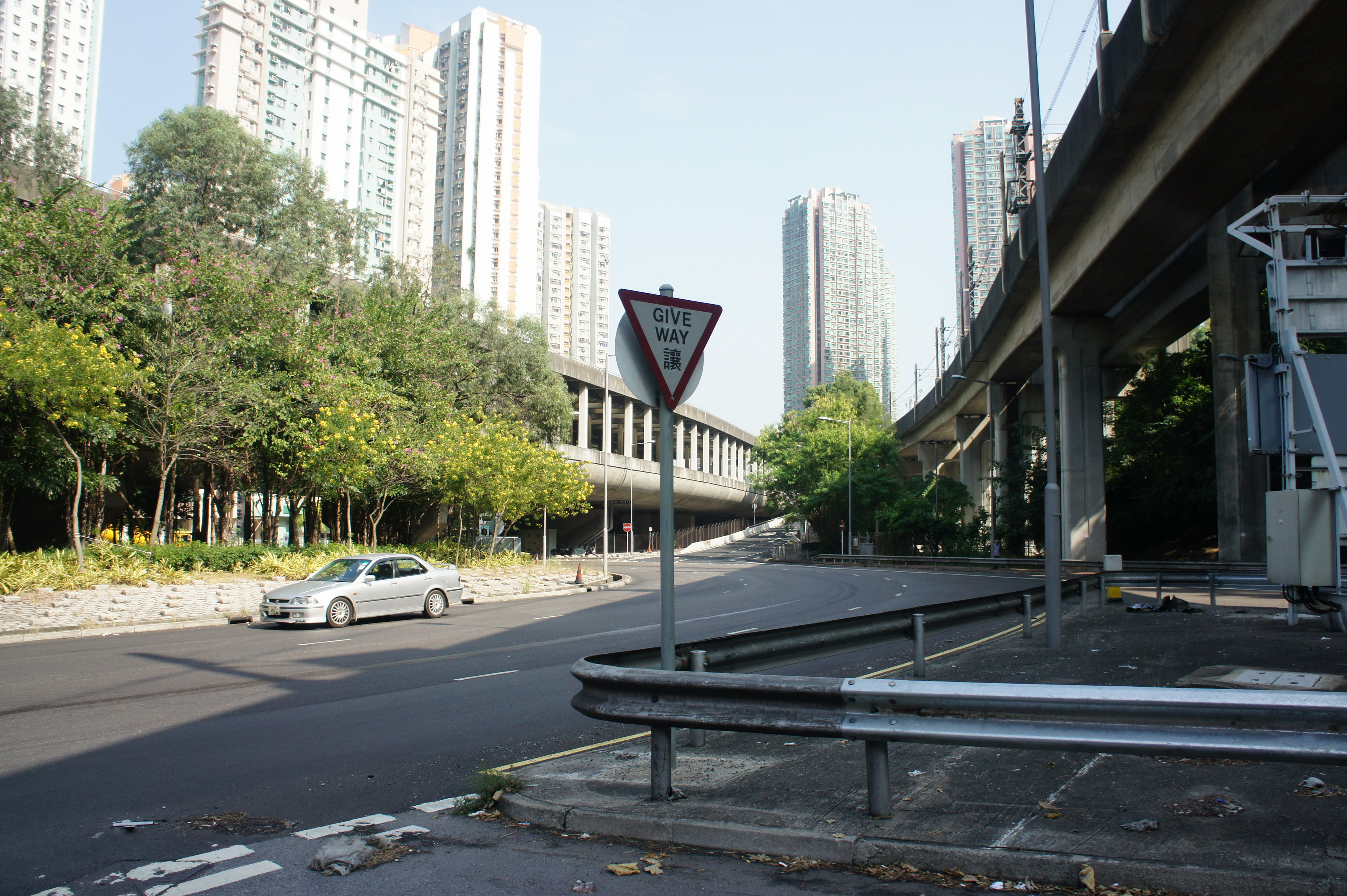 Tam Kon Shan Interchange, a road interchange on northern Tsing Yi Island in Hong Kong.